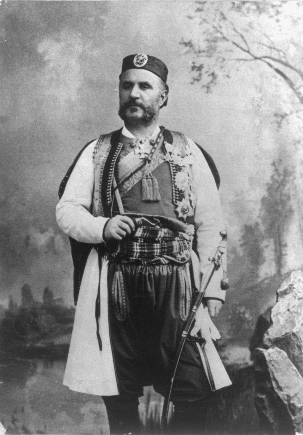 Nicholas I of Montenegro (1841–1921), at the time Prince Nicholas of Montenegro.